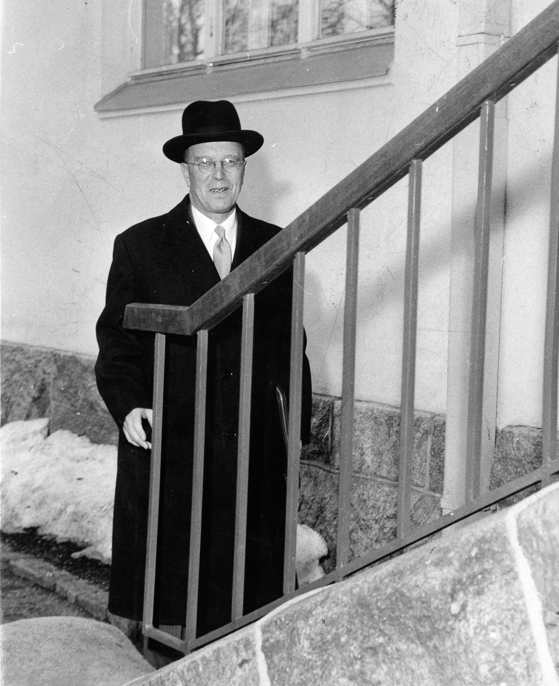 Photograph of the Finnish politician Rainer von Fieandt (1890–1972) at Tamminiemi (the Presidential residence), Helsinki.